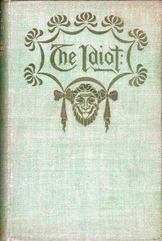 The Idiot - John Kendrick Bangs - cover - Project Gutenberg eText 18881